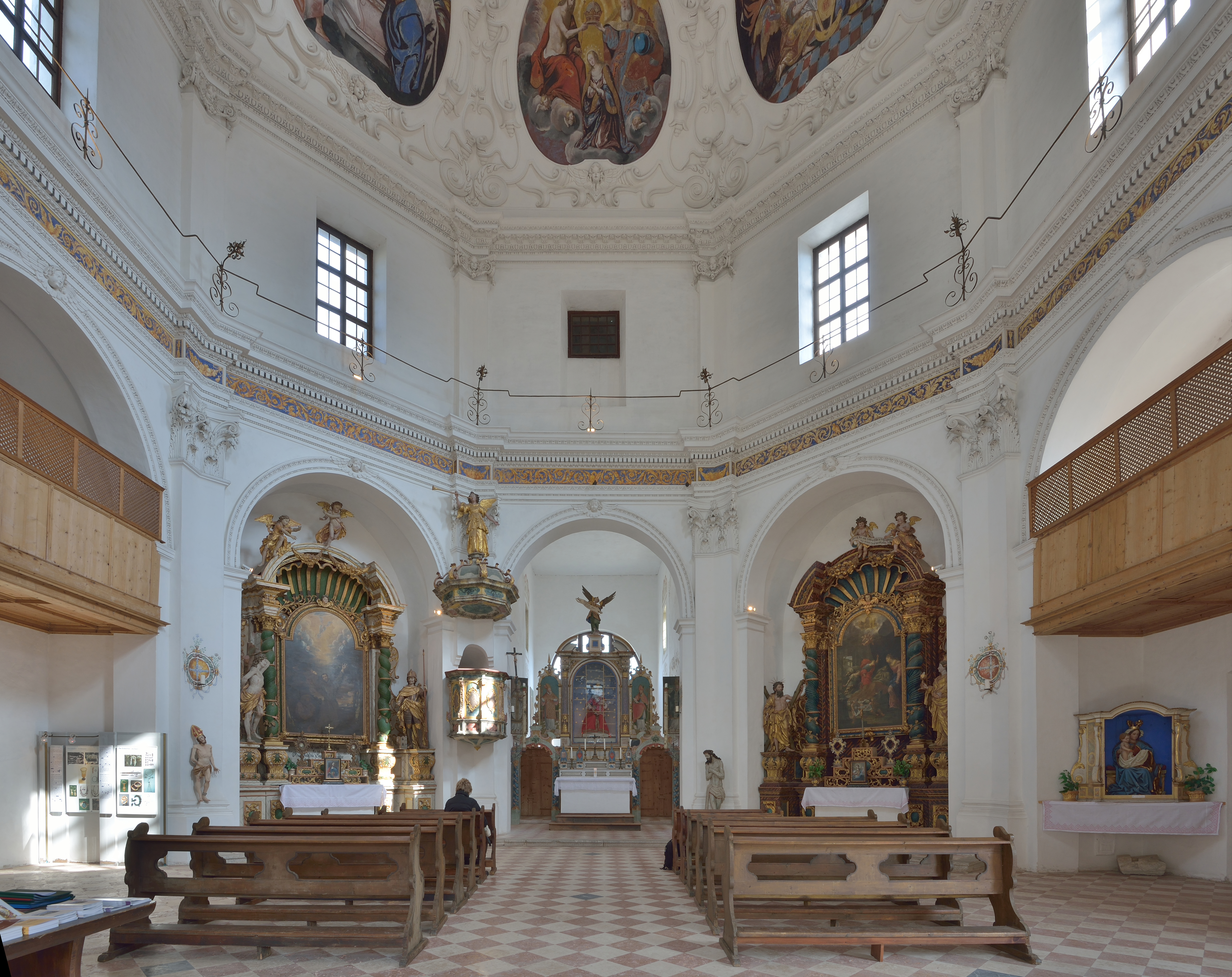 Our Lady church in the Säben Abbey in South Tyrol